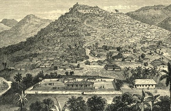 church and mission house at ibadan - Seventeen years in the Yoruba country. Memorials of Anna Hinderer - Illustration - Published 1877